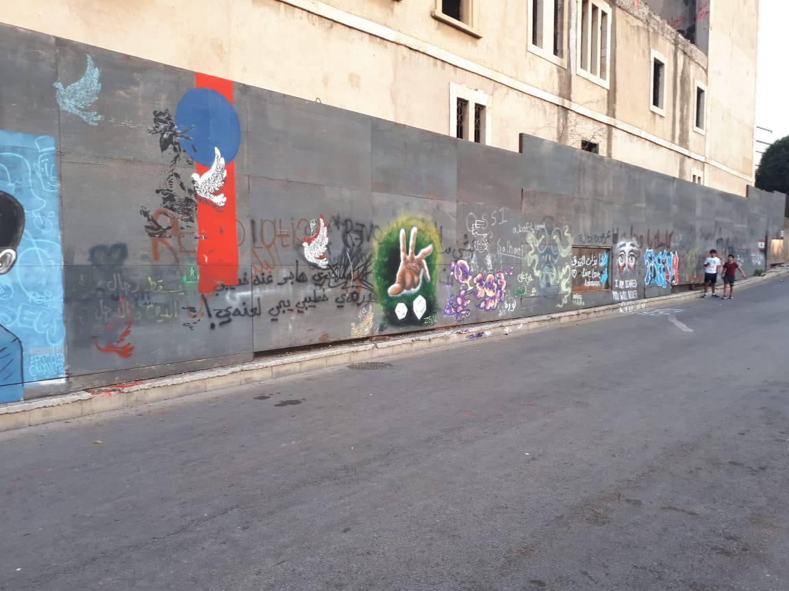 2019 Beirut protests 12 November